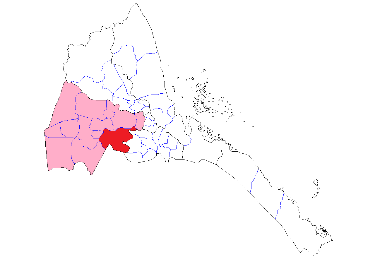 Shambuko District